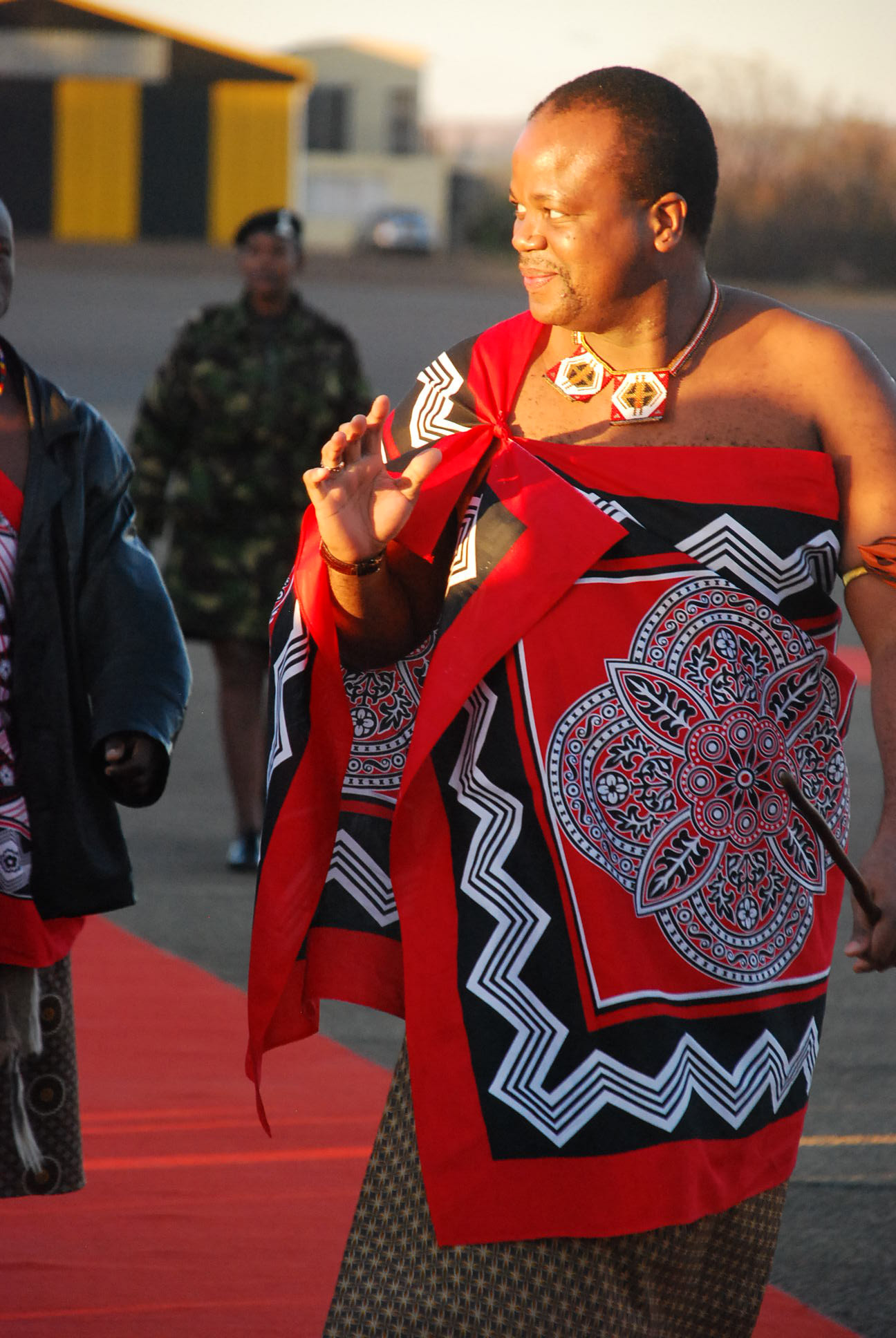 His Majesty King Mswati III of Eswatini